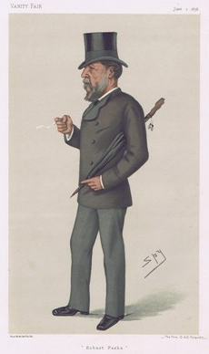 Caricature of Admiral AC Hobart-Hampden. Caption read "Hobart Pasha".